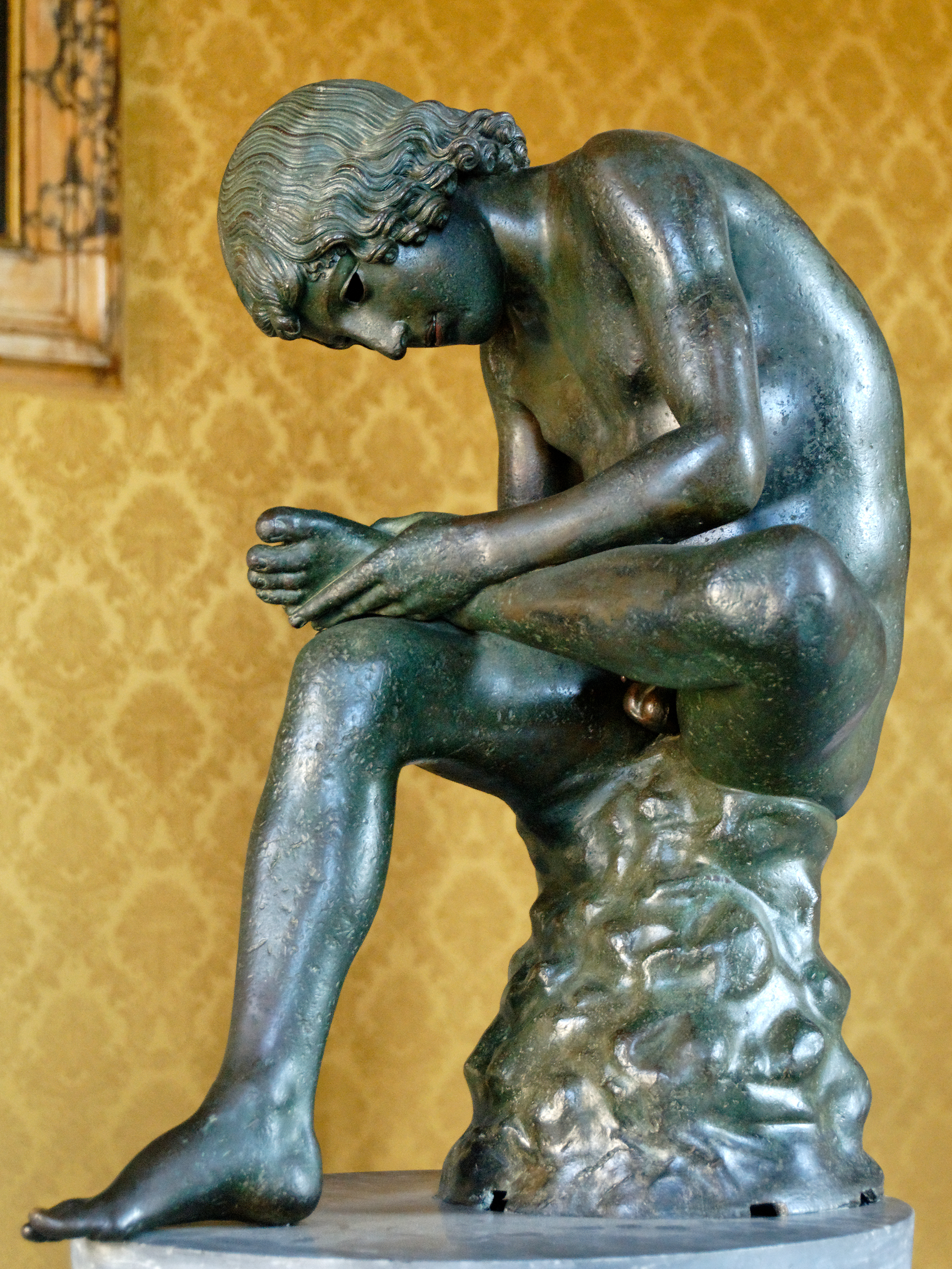 Detail of the Spinario or Thorn-Puller. Greek artwork of the Late Helelnistic era after classical and hellenistic models.